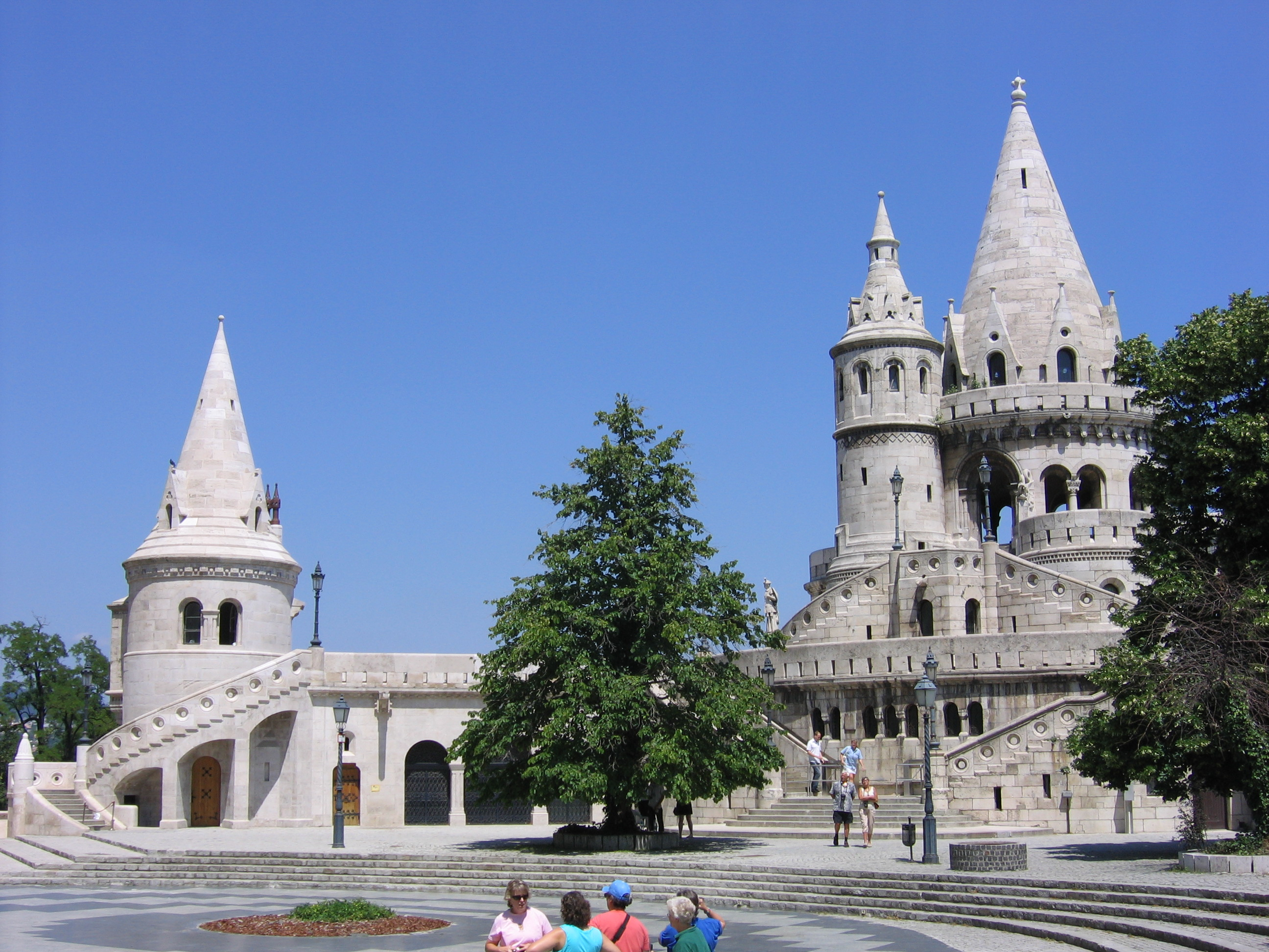 Scenes of Budapest (Fisher Bastion)